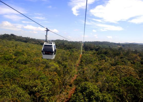 Inmensidad Parque Arví, Medellín